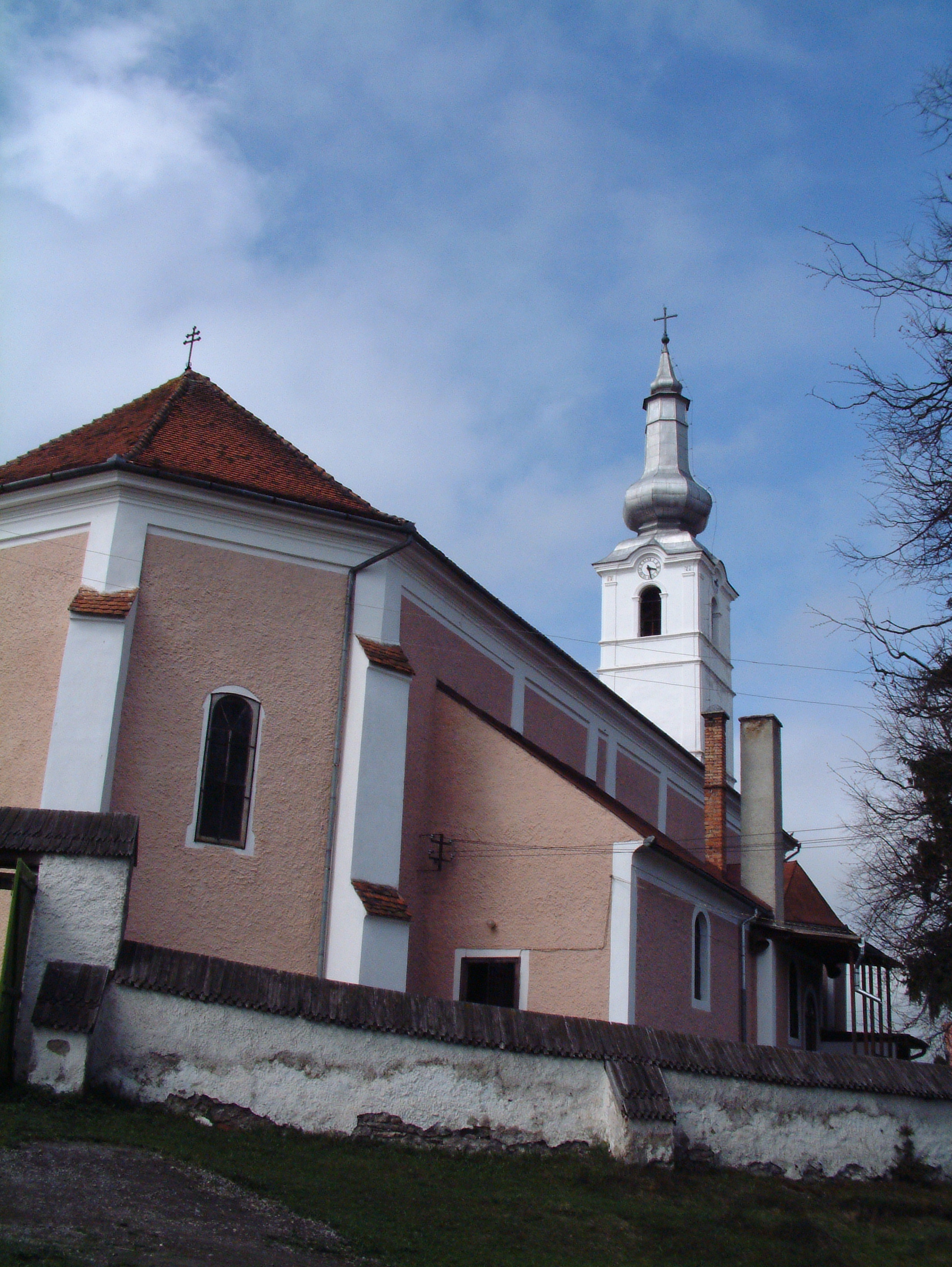 St Leonard Church of Remetea